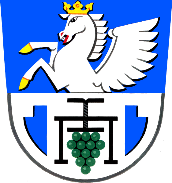 Municipal coat of arms of Milotice village, Hodonín District, Czech Republic.